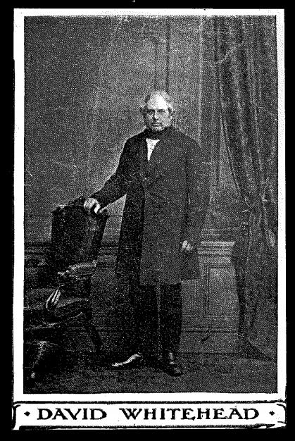 Portrait of a man standing